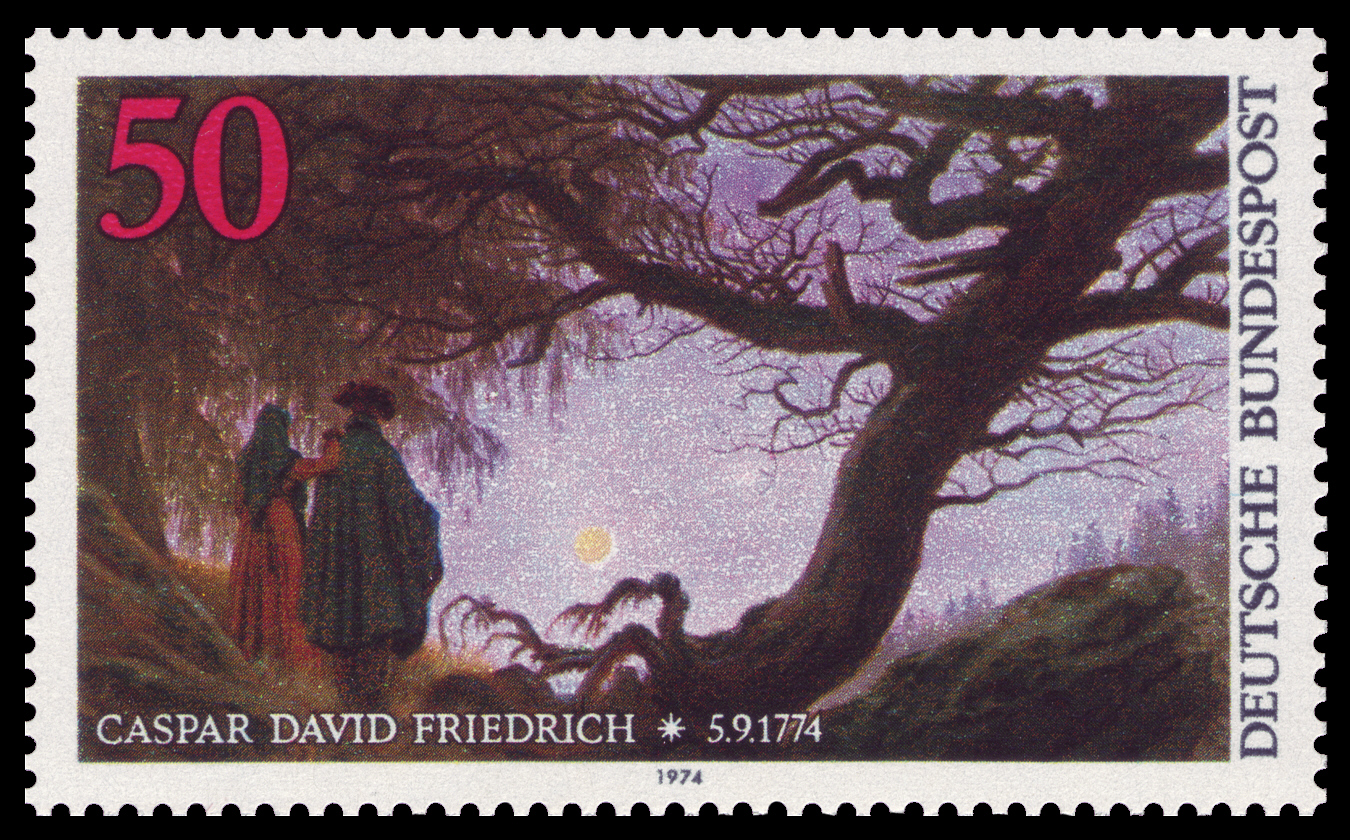 200th day of birth of Caspar David Friedrich (1774–1840) Ausgabepreis: 50 Pfennig First Day of Issue / Erstausgabetag: 16. August 1974 Michel-Katalog-Nr: 815